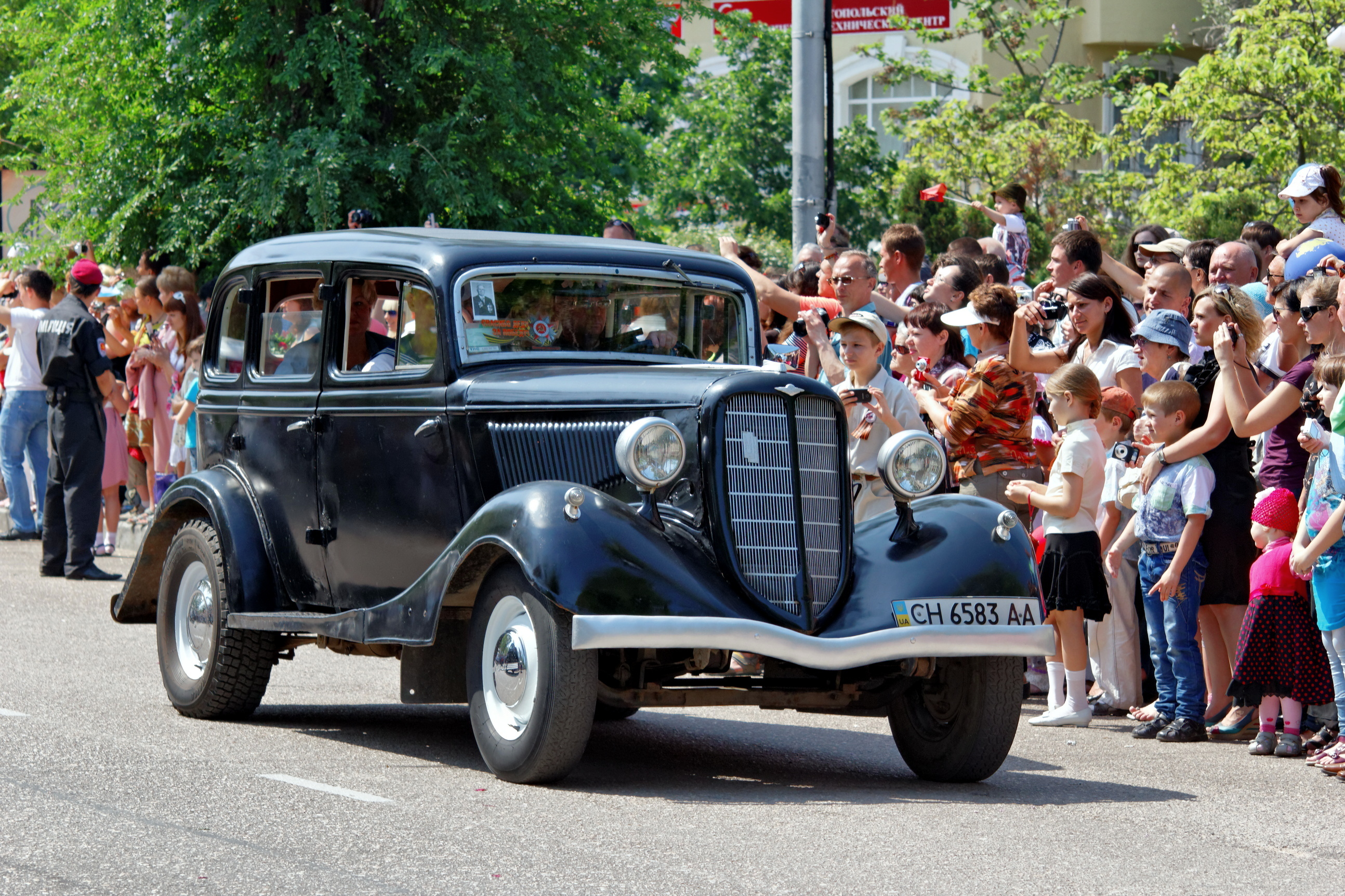 Sevastopol. Victory Day Parade (May 9, 2012). GAZ-M1